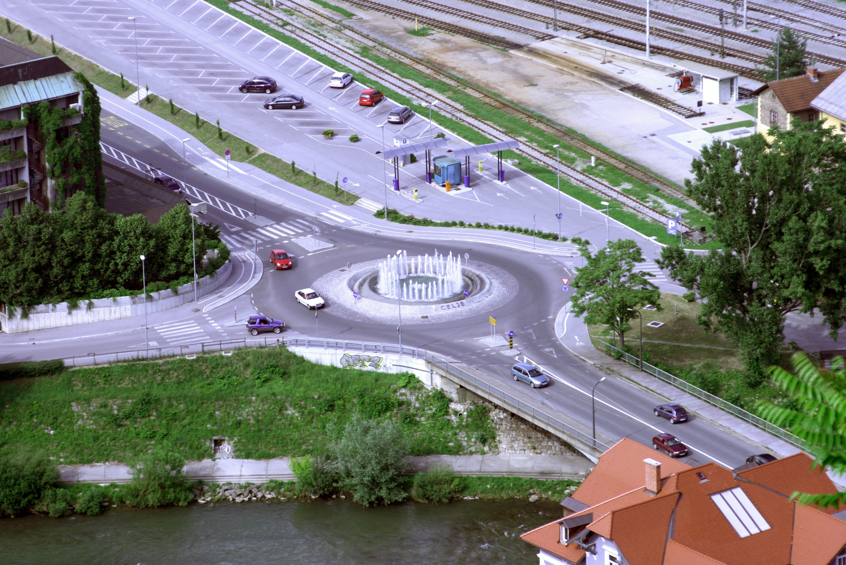 Celje, The Laško Bridge.